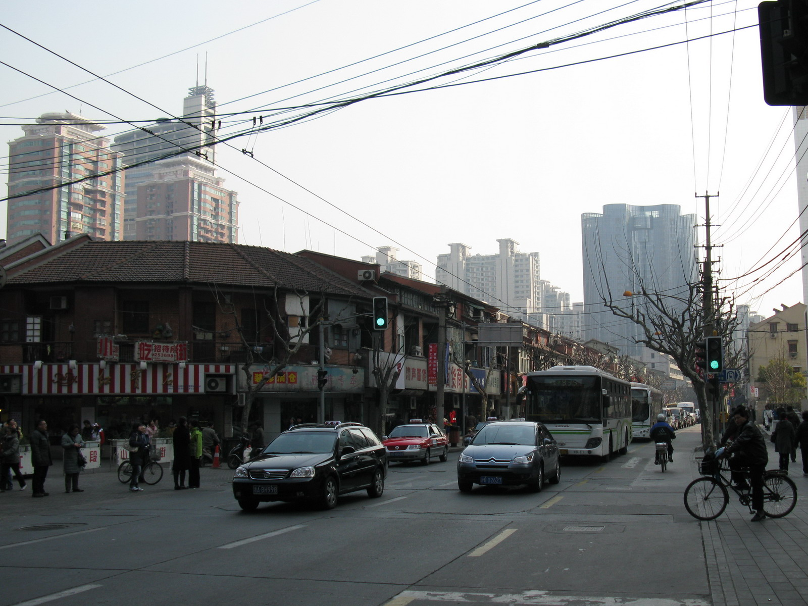 Shimen No.1 Road, view towards Weihai Road (Dazhongli before demolished, now it has been rebuilt as HKRI Taikoo Hui.)